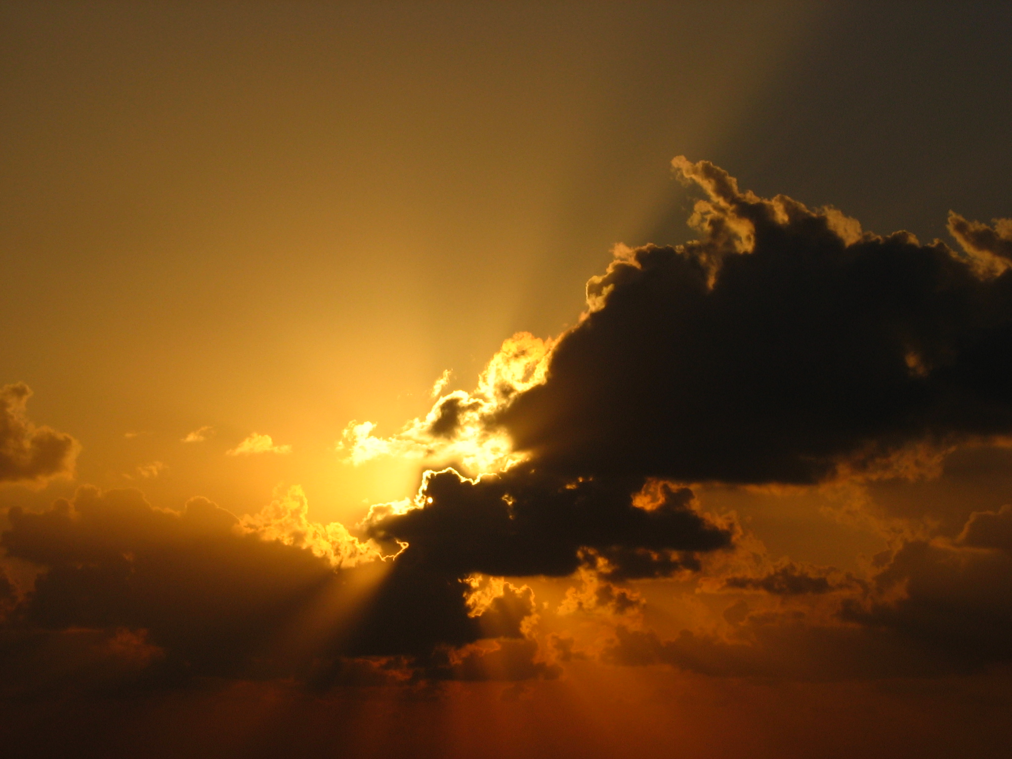 The sun, behind the clouds, above the mediterranean sea